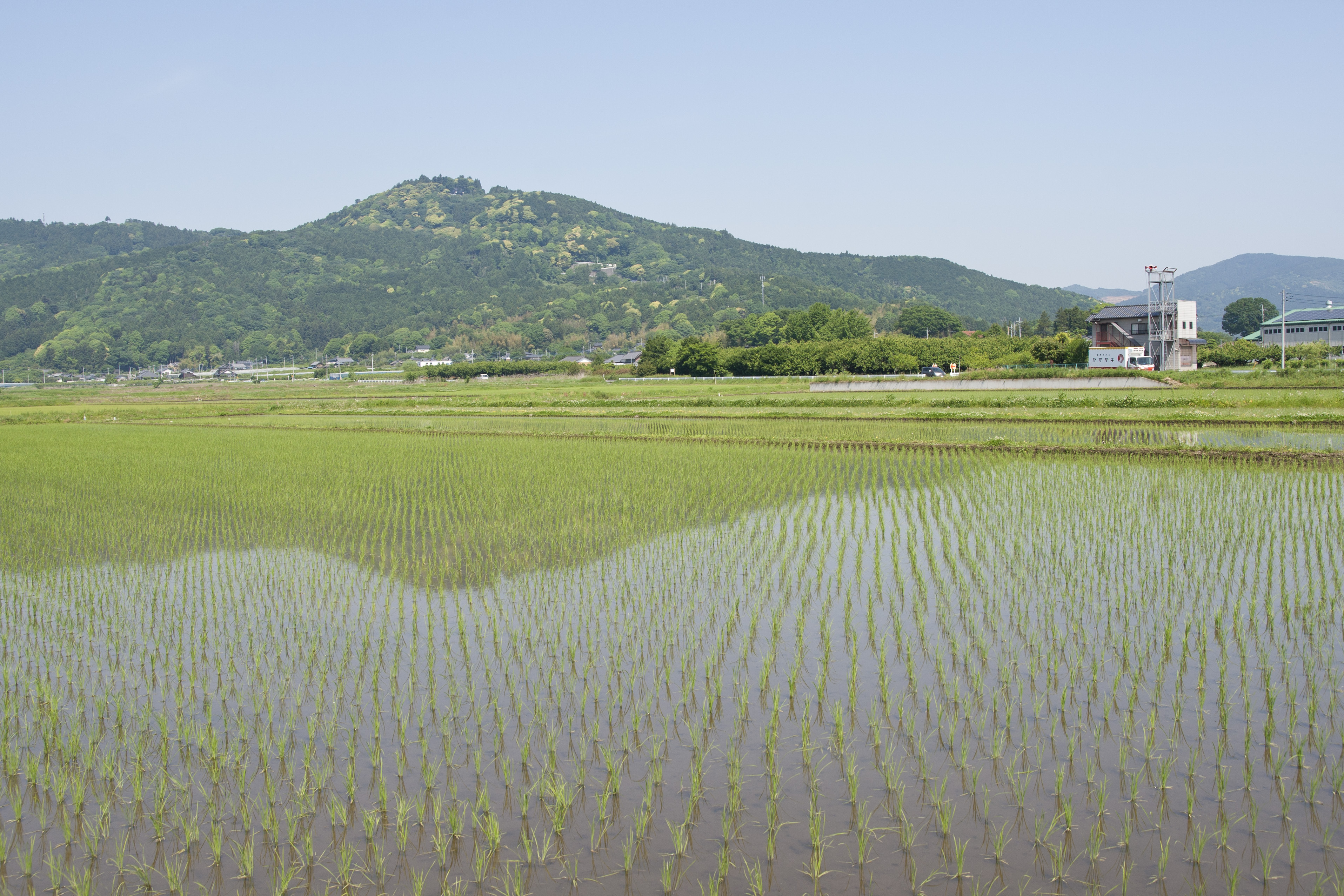 Mount Atago, Kasama City, Ibaraki Pref., Japan